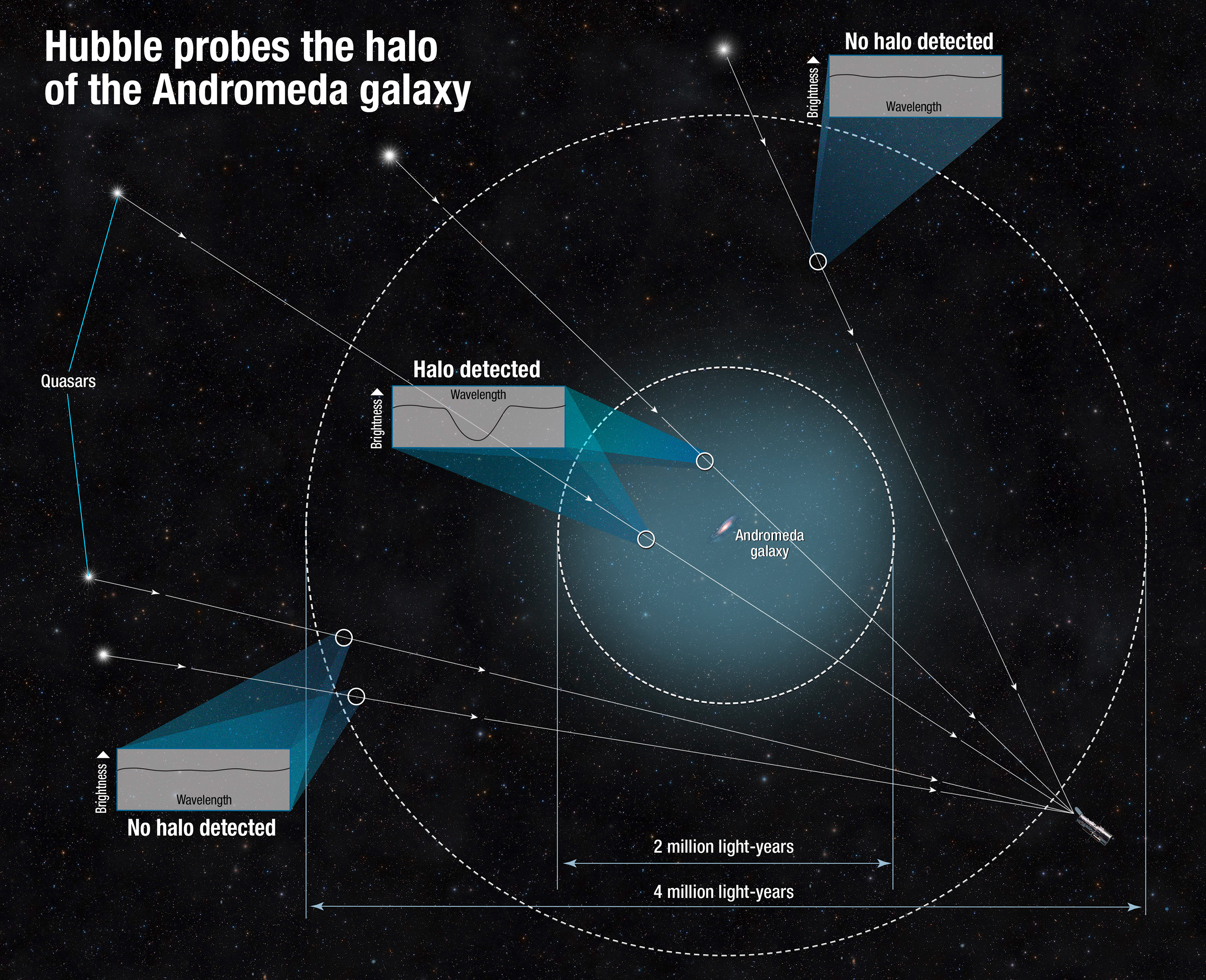 This diagram shows how scientists determined the size of the halo of the Andromeda galaxy. Because the gas in the halo is dark, the team measured it by using the light from quasars, the very distant bright cores of active galaxies powered by black holes. They observed the quasars’ light as it traveled through the intervening gas. The halo’s gas absorbed some of that light and made the quasar appear darker in a very small wavelength range. By measuring the tiny dip in brightness at that specific range, scientists could tell how much gas is between us and each quasar. Some quasars showed no dip in brightness, and this helped define the size of the halo. Links: NASA press release